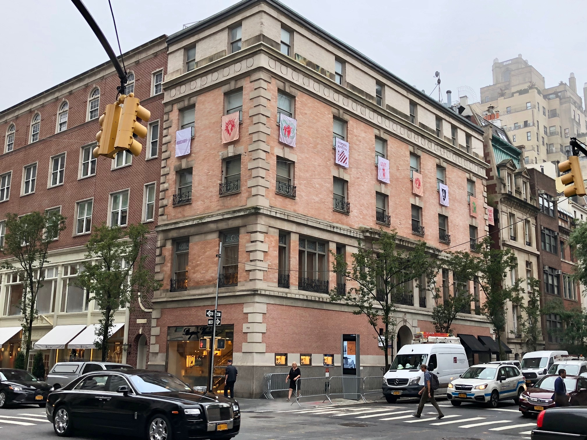 kurimanzutto new york seen from Madison Avenie